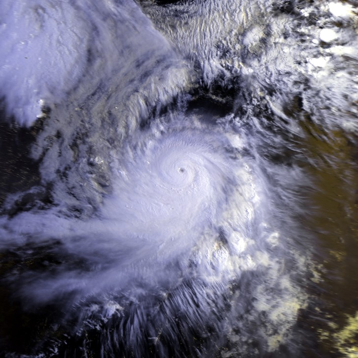 This image shows Typhoon Omar at peak intensity on August 29 at 2154 UTC. Maximum sustained winds were 130 knots. This image was produced from data from NOAA-12, provided by NOAA.